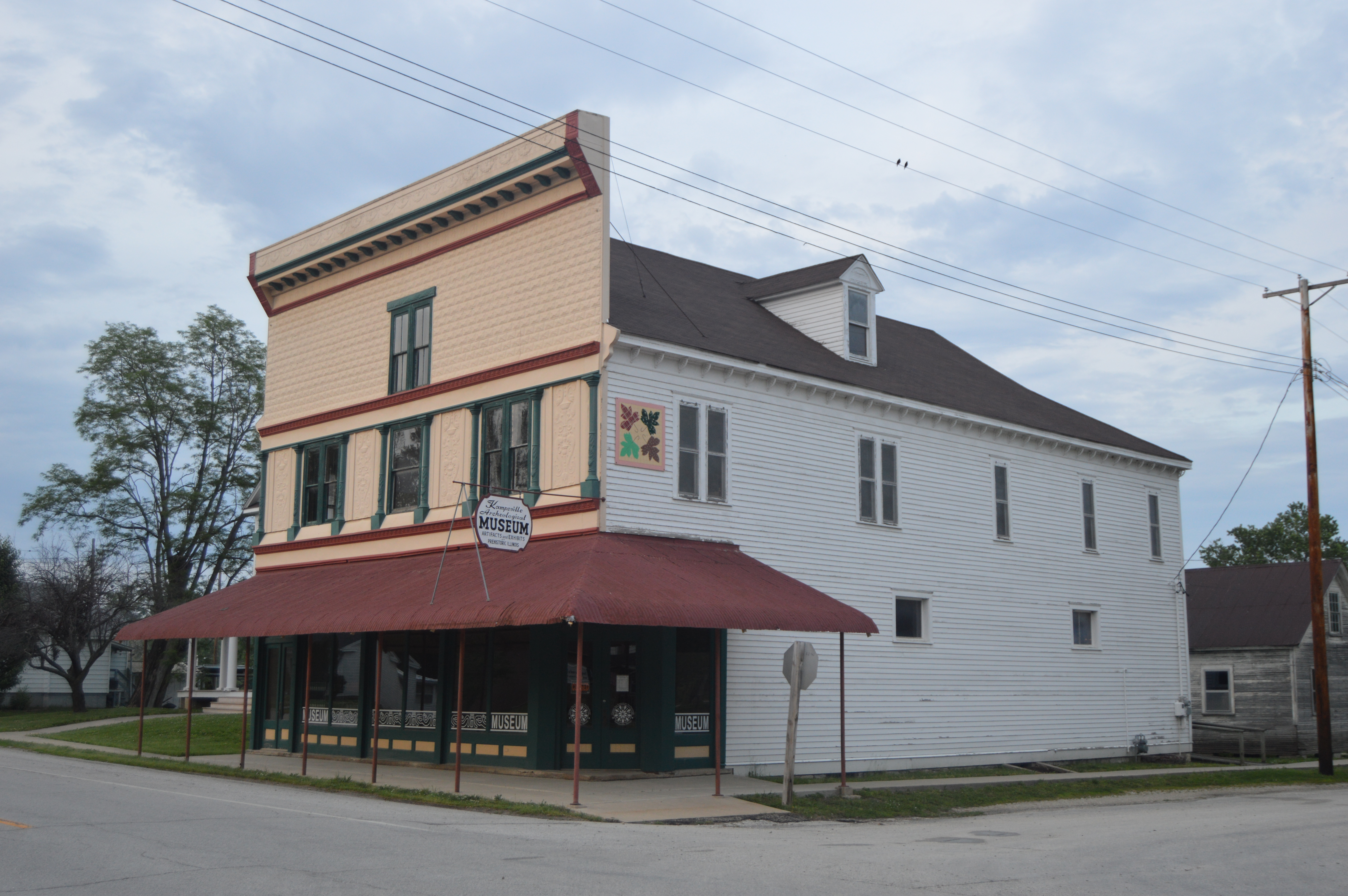 Front and southern side of the Kamp Store, located on the northeastern corner of the junction of Broadway (Illinois Route 100) and Oak Street in Kampsville, Illinois, United States. Built in 1902, it is listed on the National Register of Historic Places.